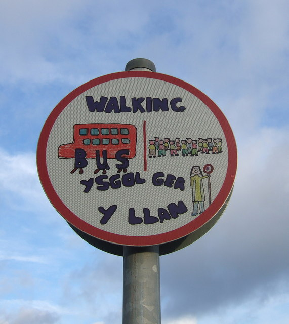 Walking bus stop, Station Road A pick-up point for the walking bus to the village school, 'Ger y llan' (near the church) in Letterston, Wales. The scheme, whereby groups of children walk to school under the supervision of volunteer helpers, was introduced nationally in order to limit traffic congestion, reduce fuel consumption and promote healthy exercise. Since getting to school from here involves crossing the fast and busy A40 road, this is a valuable community initiative and the sign has been designed by the children themselves.